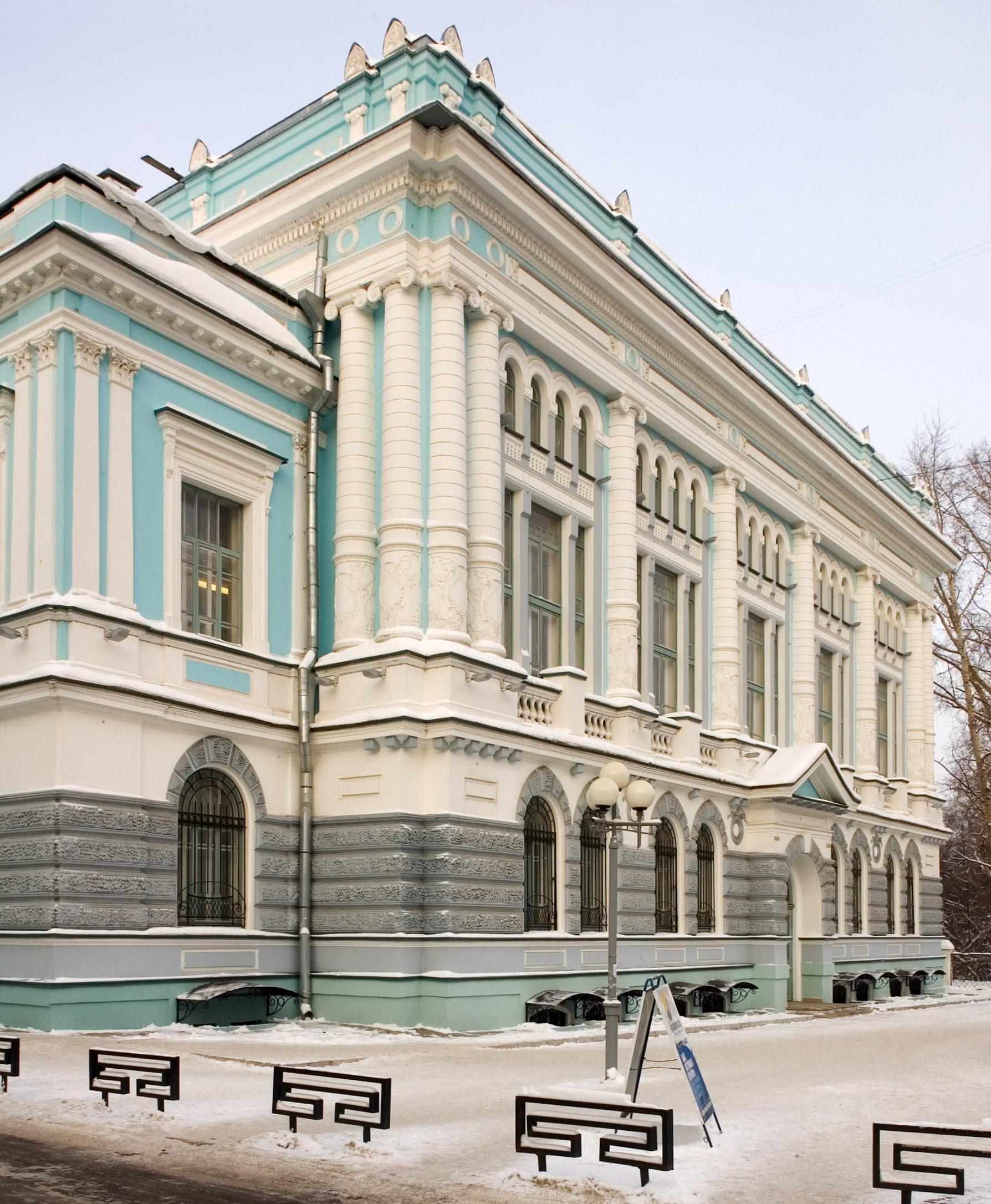 Scientific library of Tomsk state university in Tomsk. Photo by Pavel Andryushchenko